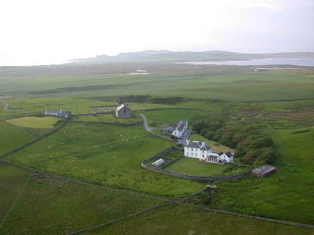 Kilchoman from Creag Mhor. View down from Creag Mhor to Kilchoman farm. cottages and church